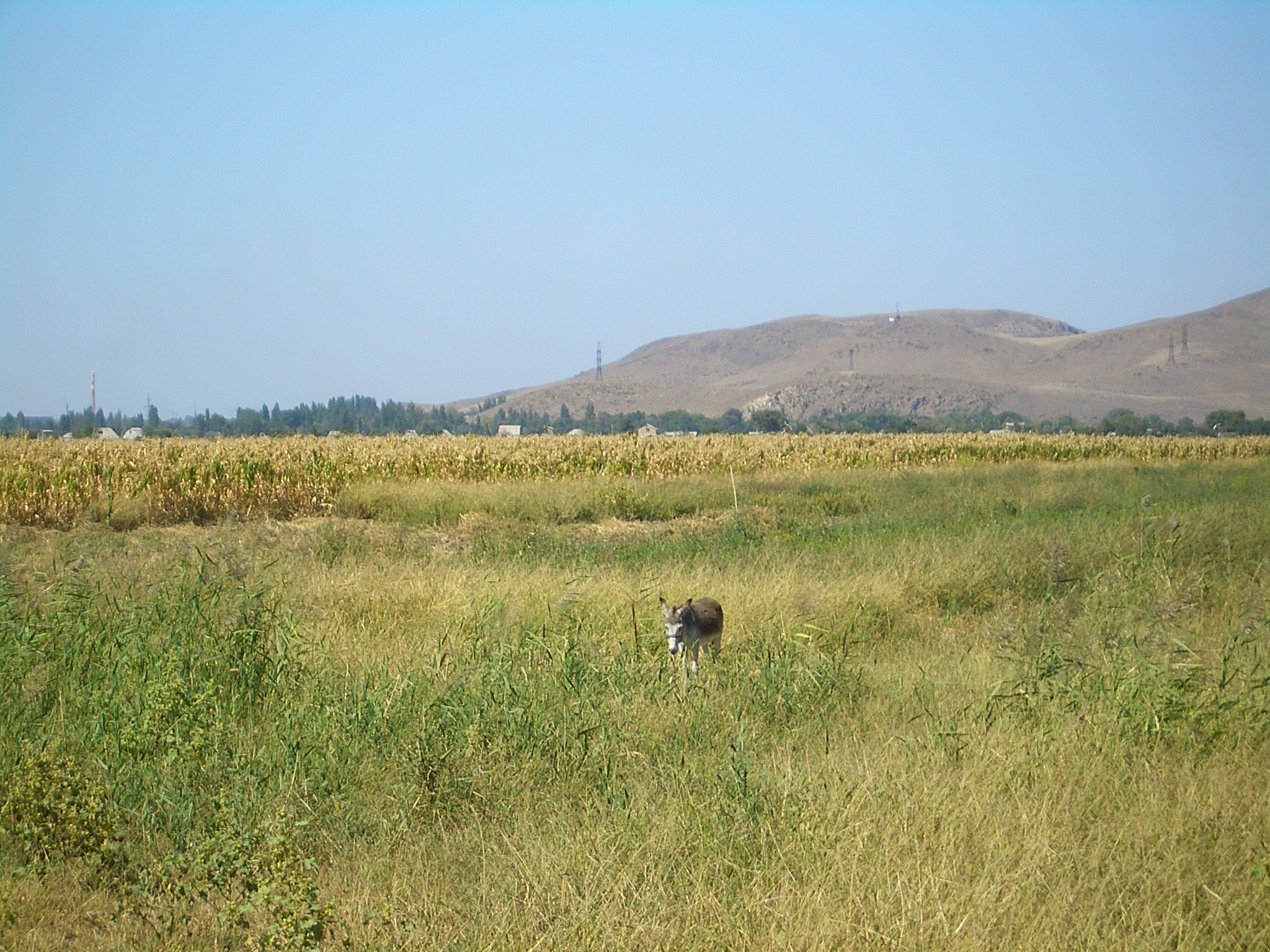 A donkey in the fields in the Chuy River Valley. The picture is taken west of Milyanfan, a village on the Kyrgyz side of the river. The hills in the background are already on the Kazakh side (Korday District, Zhambyl Province).